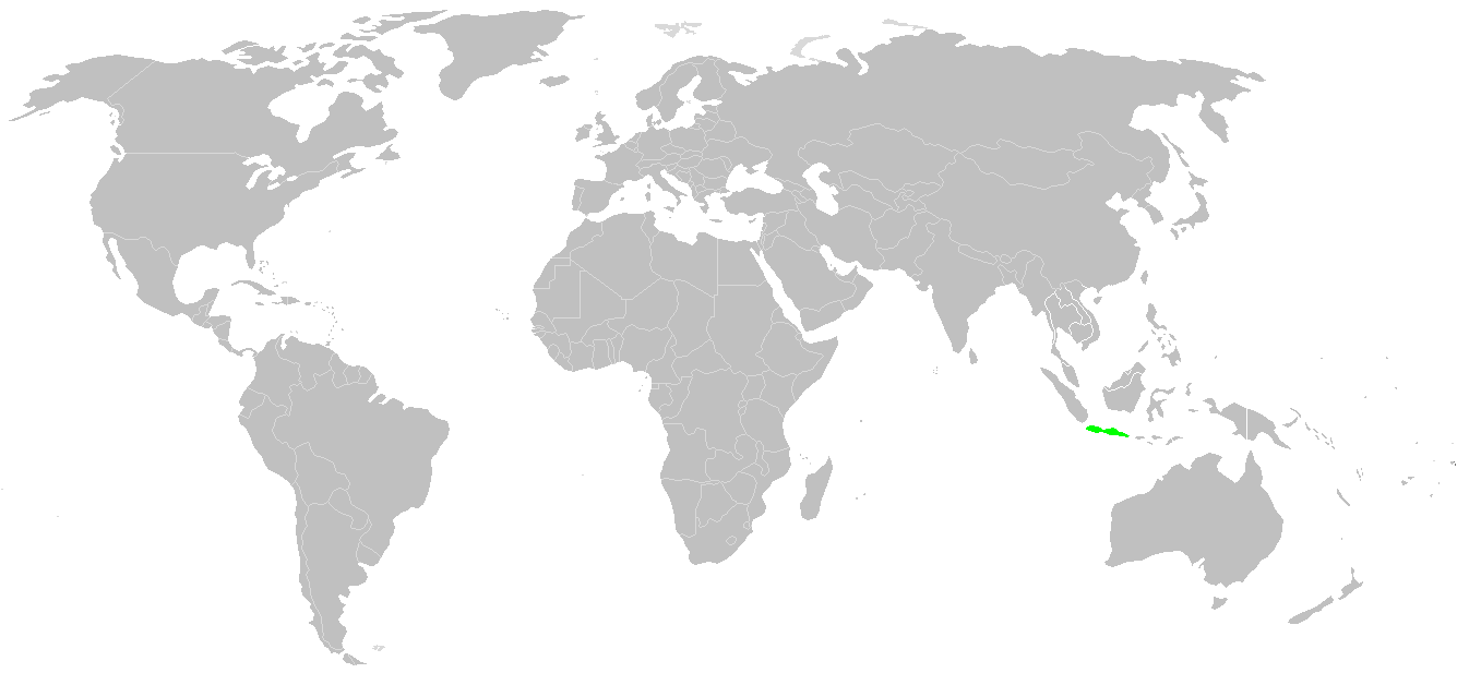 Known world distribution of Thianella disjuncta (Java)